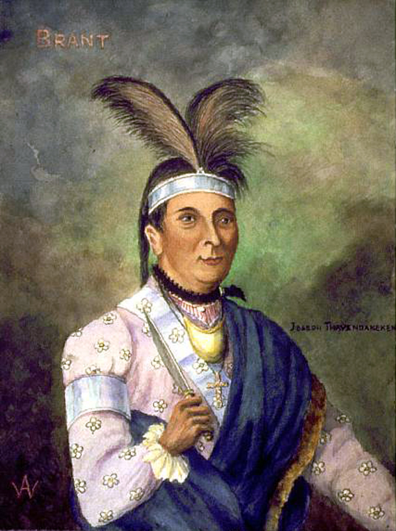 Watercolor portrait of Joseph Brant (Thayendanegea)